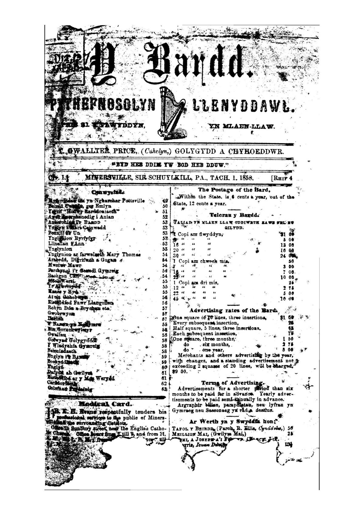 A fortnightly Welsh language literary periodical, which published articles on literature, poetry and the arts. The periodical was edited by the journalist and poet, Thomas Gwallter Price (Cuhelyn, 1829-1870).